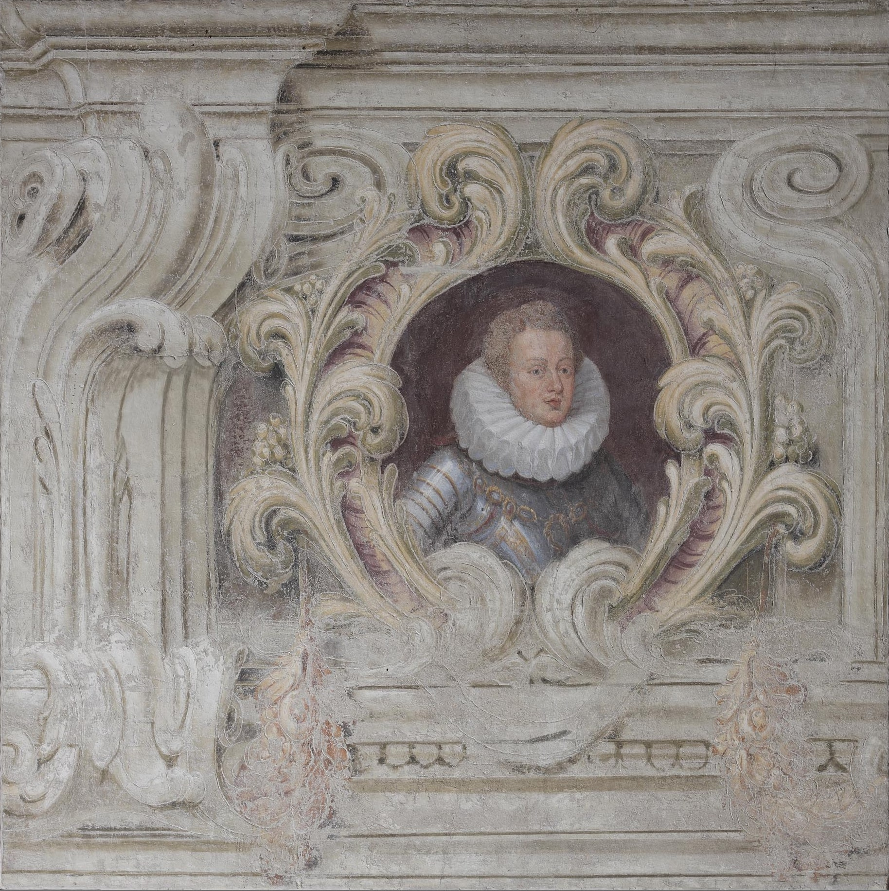 Portrait of Francesco IV Gonzaga, duke of Mantova